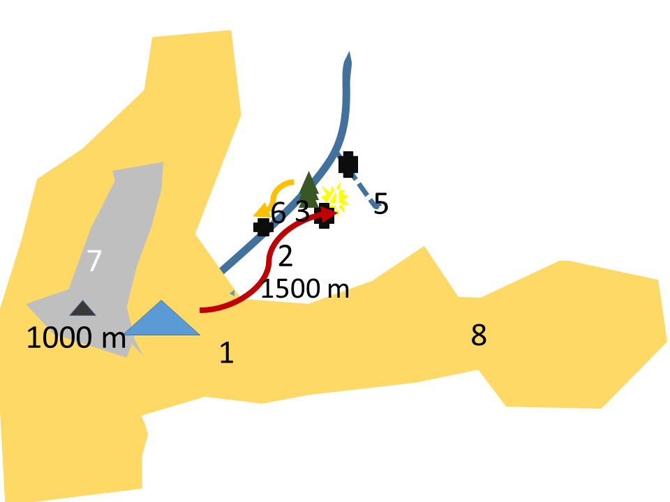 Accident of Dyatlow pass. 9 russian hikers has tent newr mountain top in plateau. They ran out from tent ca. 1500m 2) and make fire 4) from fir 3) btrranches. Some went to ravine 5) . Some tried to return to tent 6). 8) is Dyalov pass.